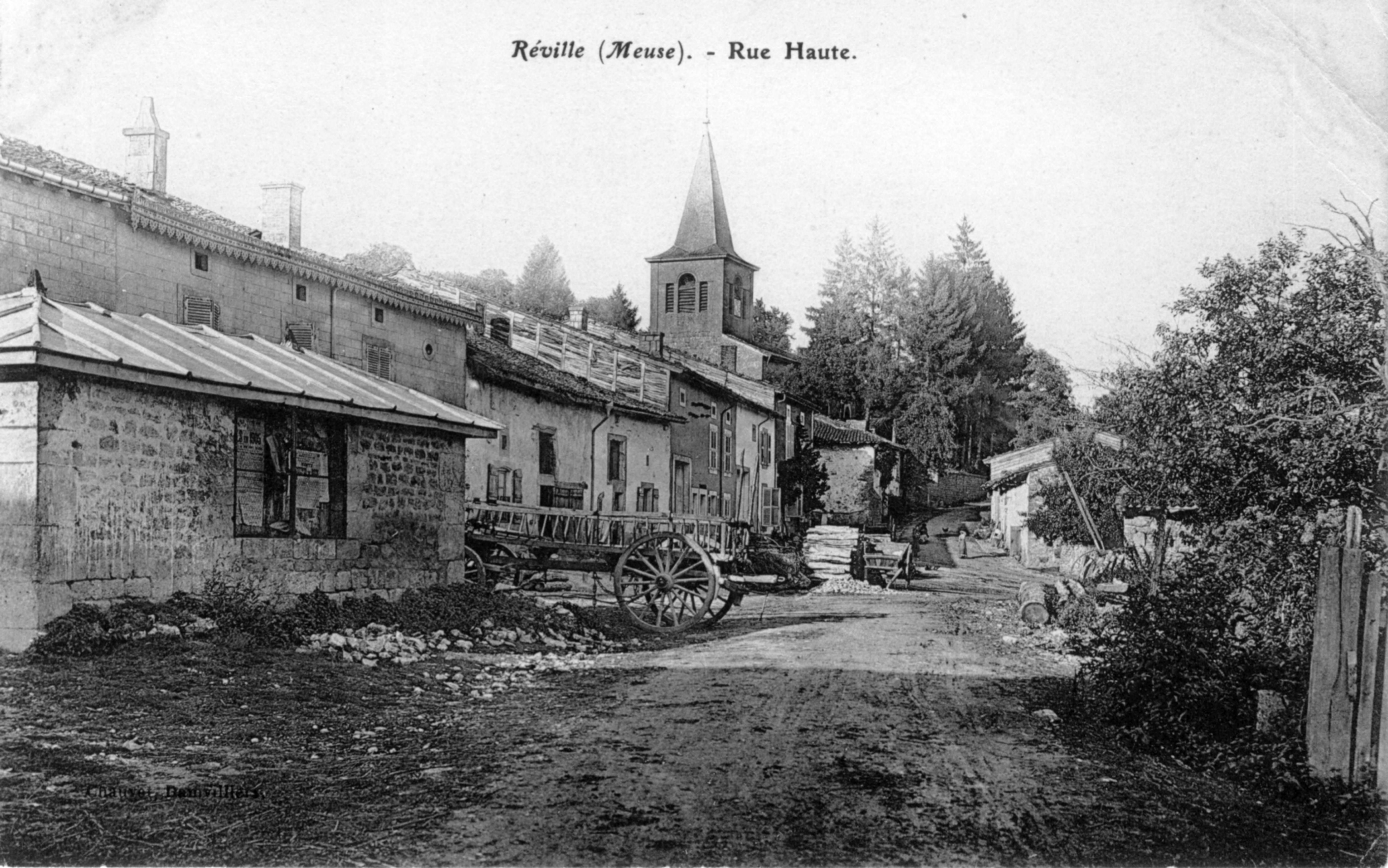 Réville (Meuse). Rue haute. Carte postale ancienne éditée par Chauvot, à Damvillers.